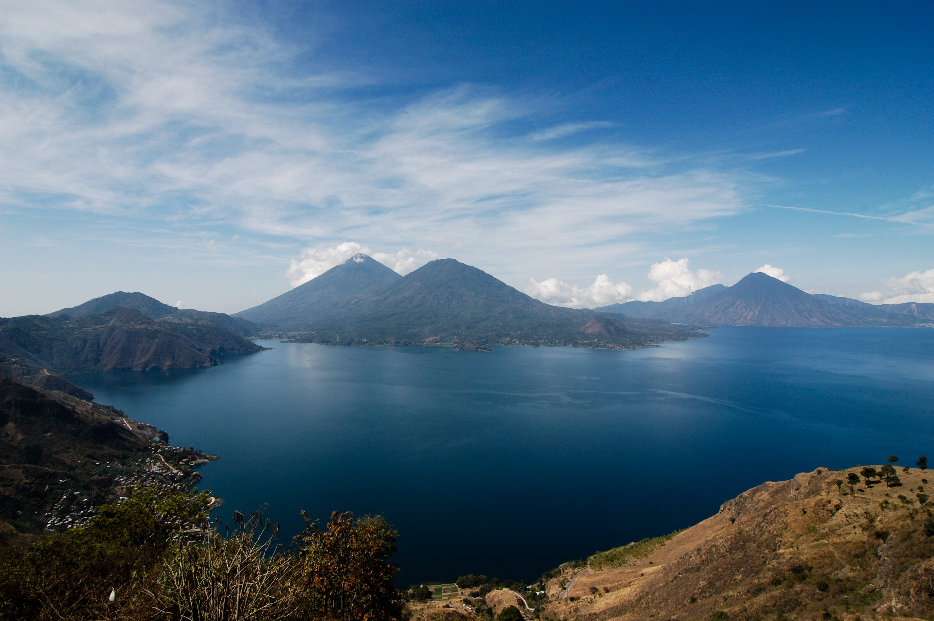 lake Atitlan, Guatemala. From right to left: San Pedro volcano, Tolimán and Atitlán volcano.